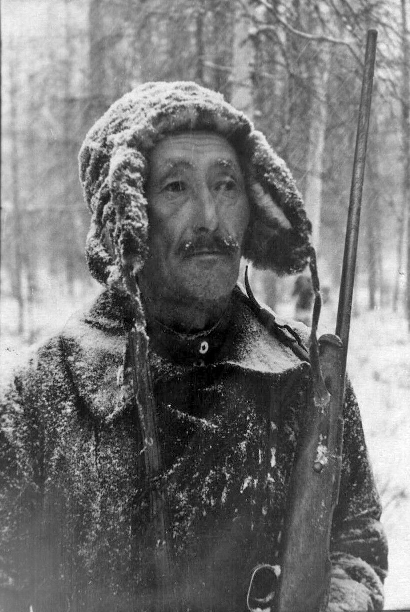 Yakut Sakha hunter Beginning of the 20th c. Yakutia.